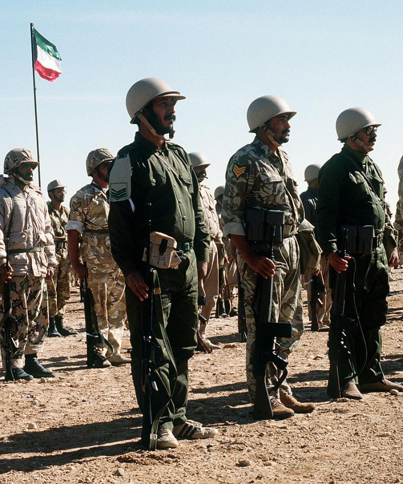 سوپای کوەیت